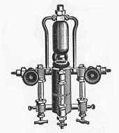 Double sightglass lubricator for compound steam engines (New Catechism of the Steam Engine, 1904).jpg